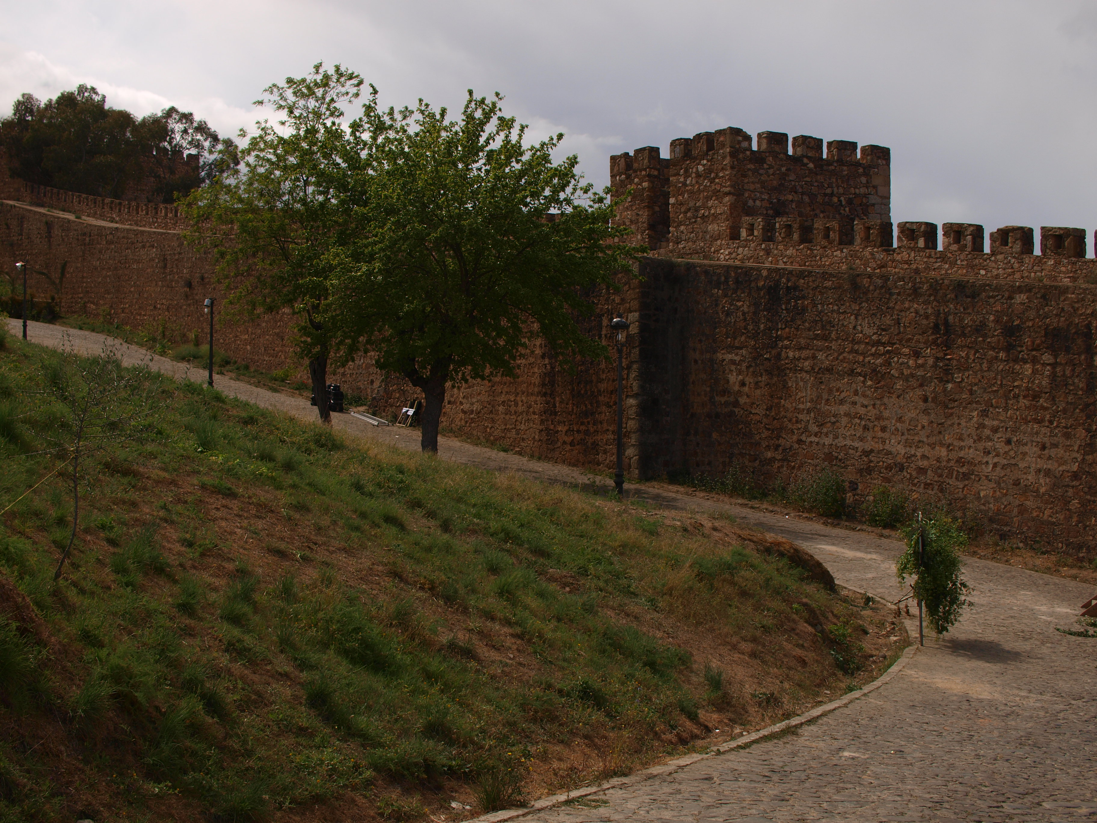 Alburquerque castle walls.